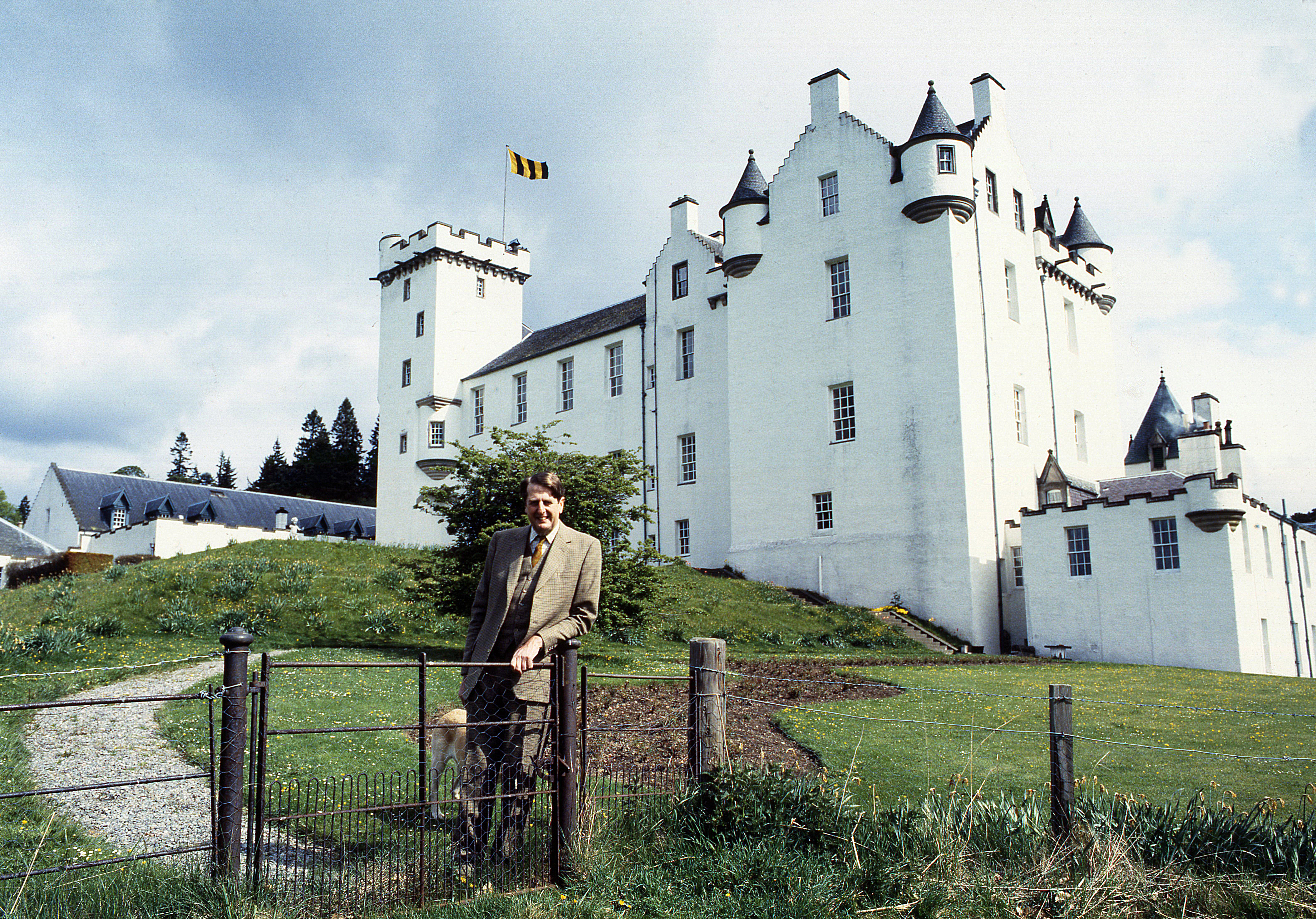 (George) Iain Murray the 10th Duke of Atholl, outside his family seat, Blair Castle, Scotland